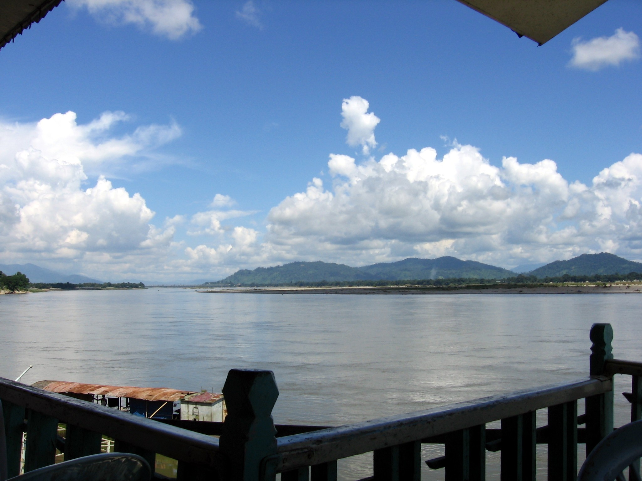 View of Ayeyarwady River form Myitkyina (Myanmar).